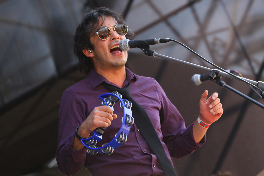 Álvaro López at Lollapalooza Chile 2011